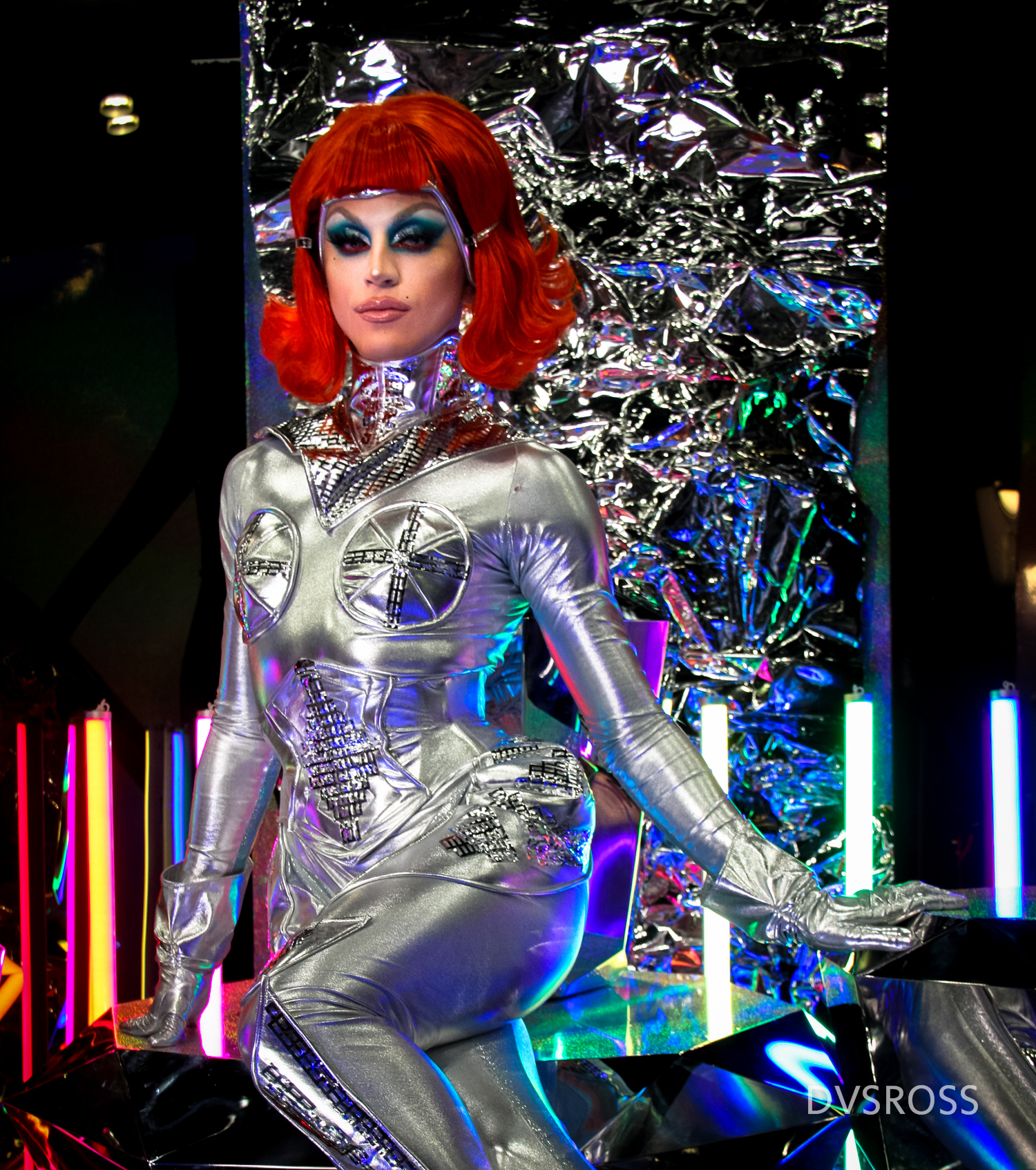 Aquaria at RuPaul's Dragcon 2019